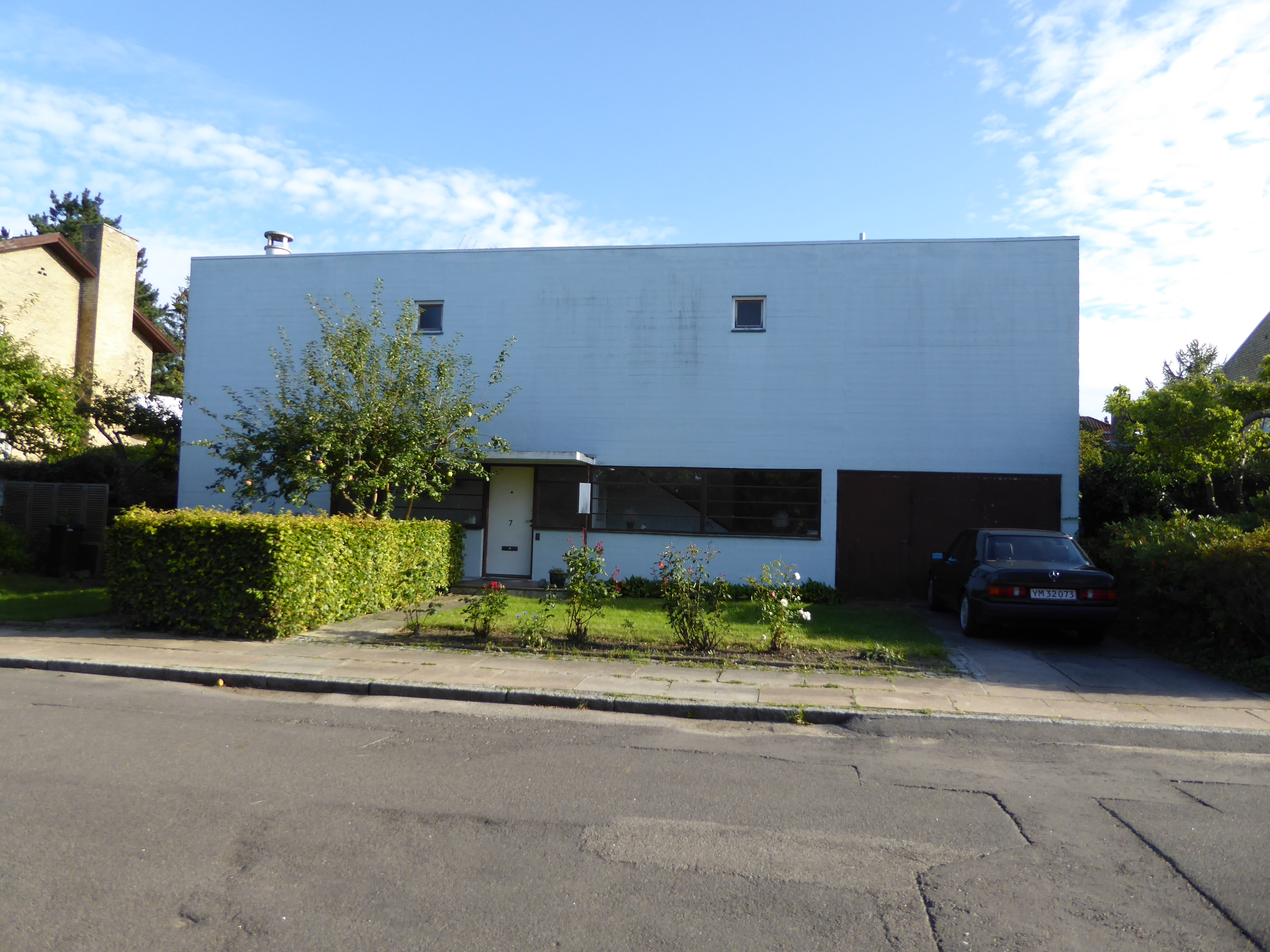 Listed house from 1934 designed by Mogens Lassen. Located at Bakkedal 7 in Gentofte, Denmark